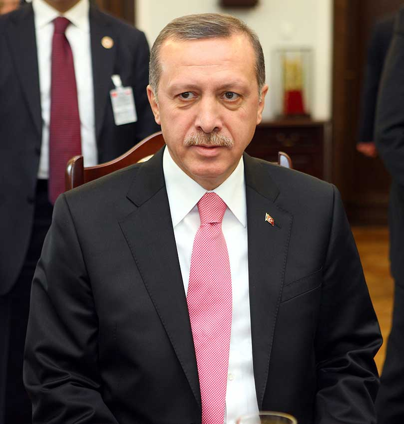 Recep Tayyip Erdoğan in Poland.